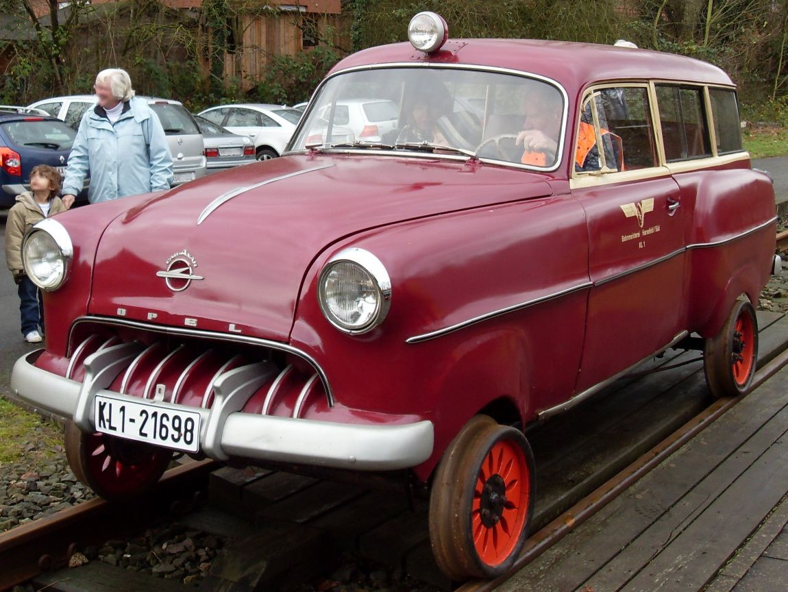 Opel Olympia from the year 1953 prepared for rail usage owned by the Buxtehude-Harsefelder Eisenbahnfreunde e.V. Harsefeld, Germany.